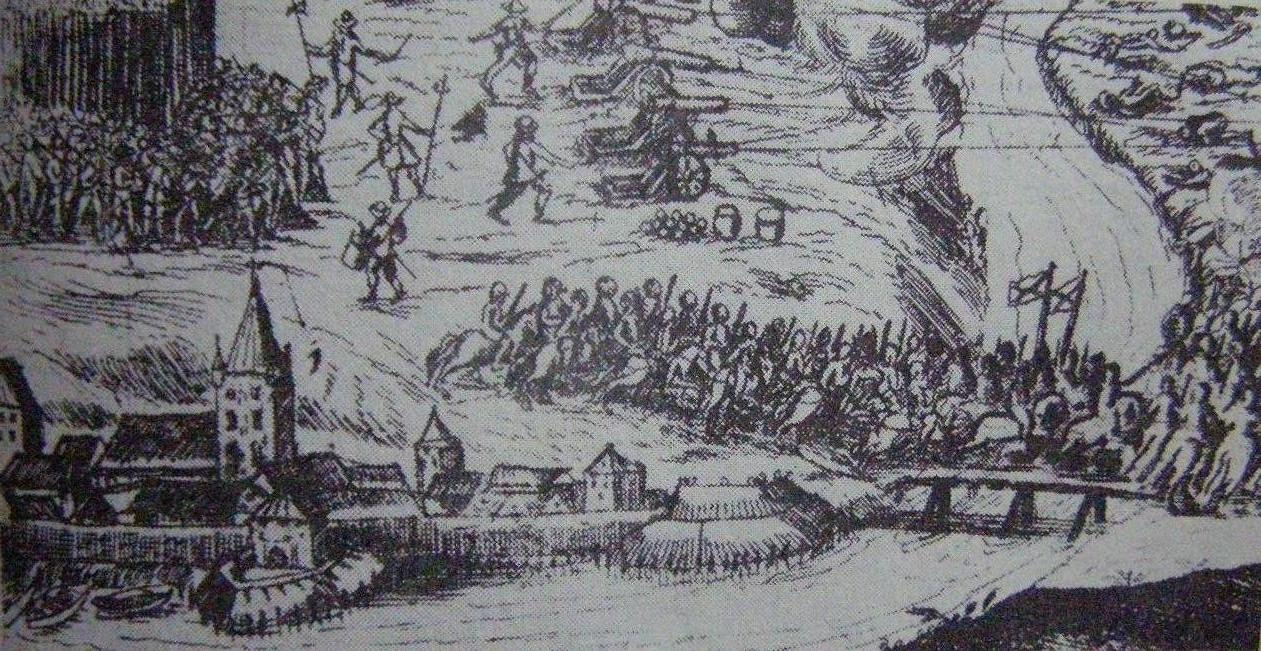 The Battle of Saint Gotthard (1664)